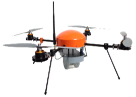 Multirotor X4